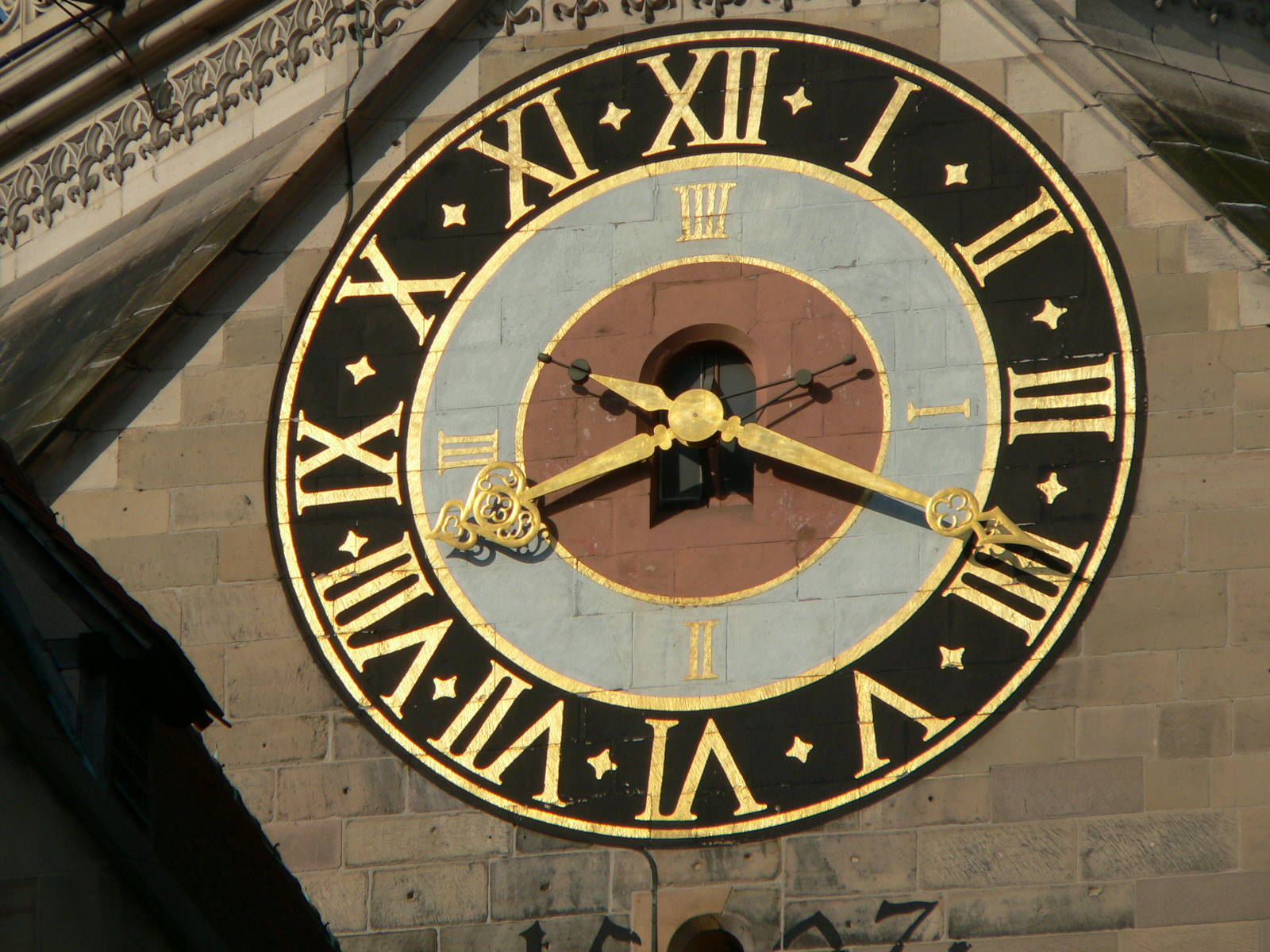 Stuttgart, Germany, Stiftskirche.